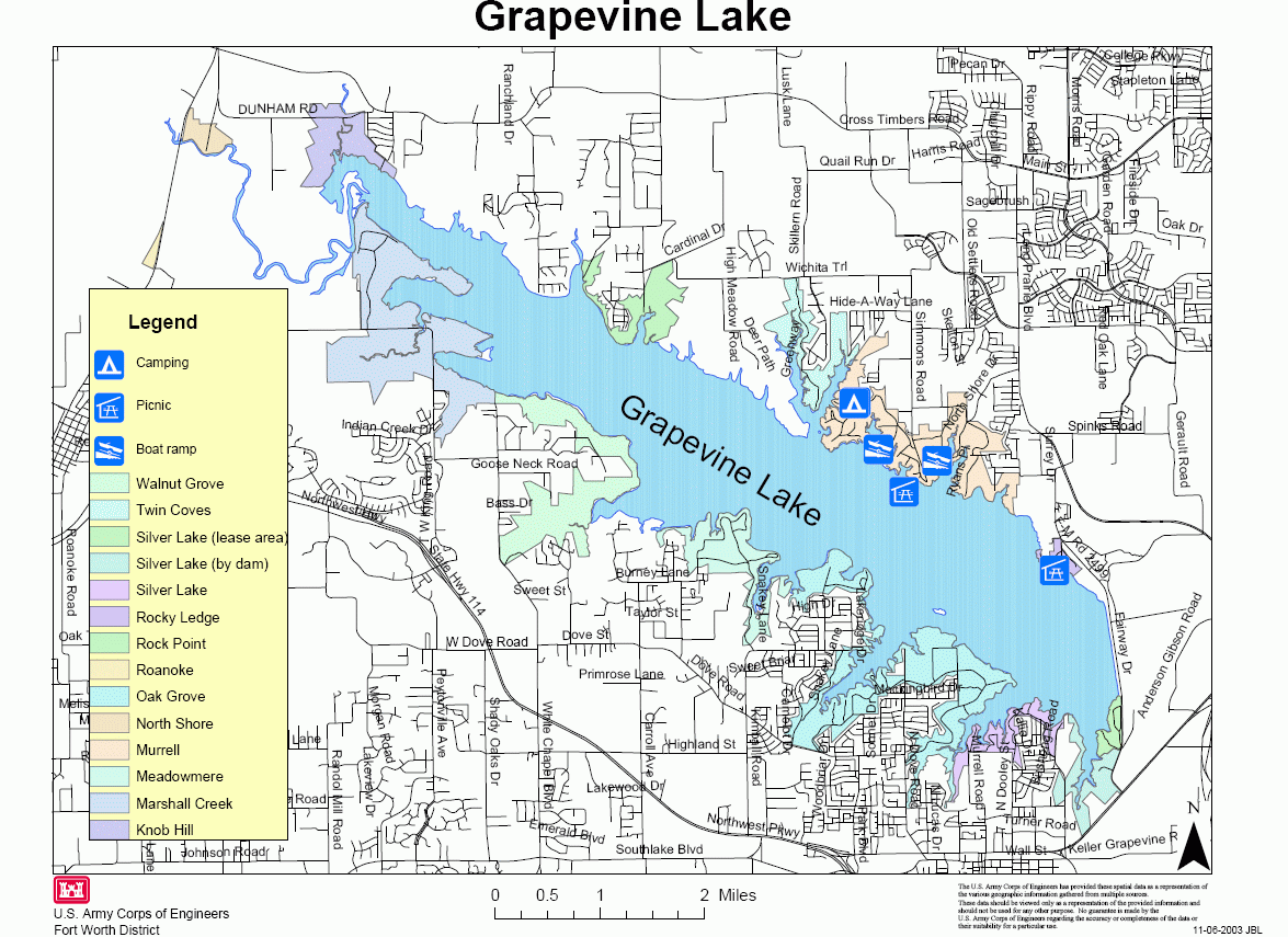 Map of Grapevine Lake and the surrounding parks. Produced by the US Corps of Engineers Fort Worth District office.